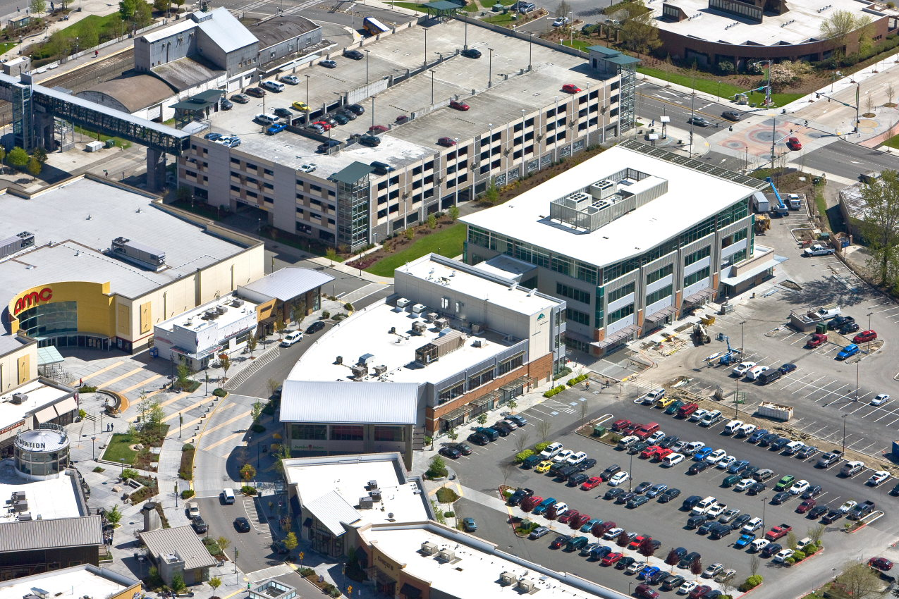 Aerial view of the Kent Station shopping center in downtown Kent.